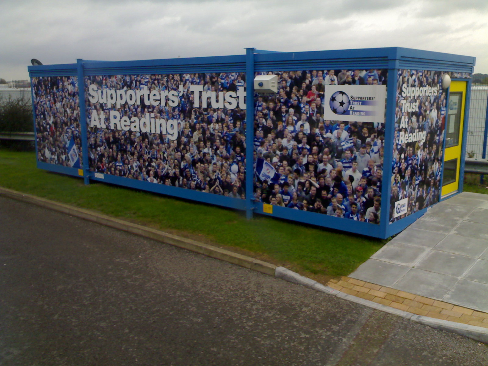 Supporters' Trust At Reading, Headquarters. Photo taken 28-Oct-2006